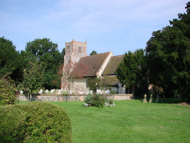 Former parish church of St Bartholomew, Shipmeadow, Suffolk, seen from the southeast